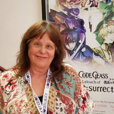 Rebecca Forstadt voice actor at the premiere of Code Geass of the Rebellion